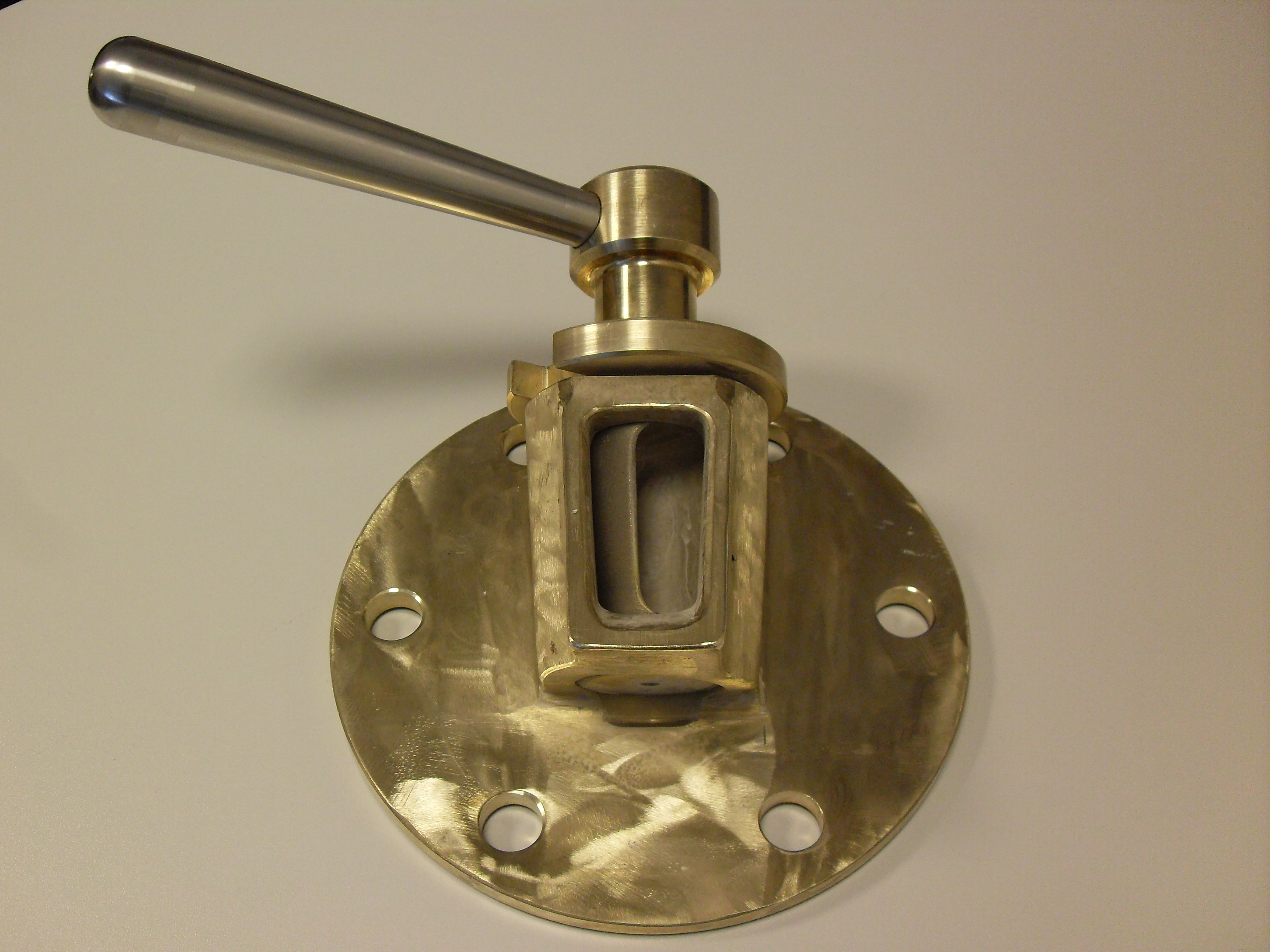 sampling cock especially for vacuum pans in the sugar industry made from brass.